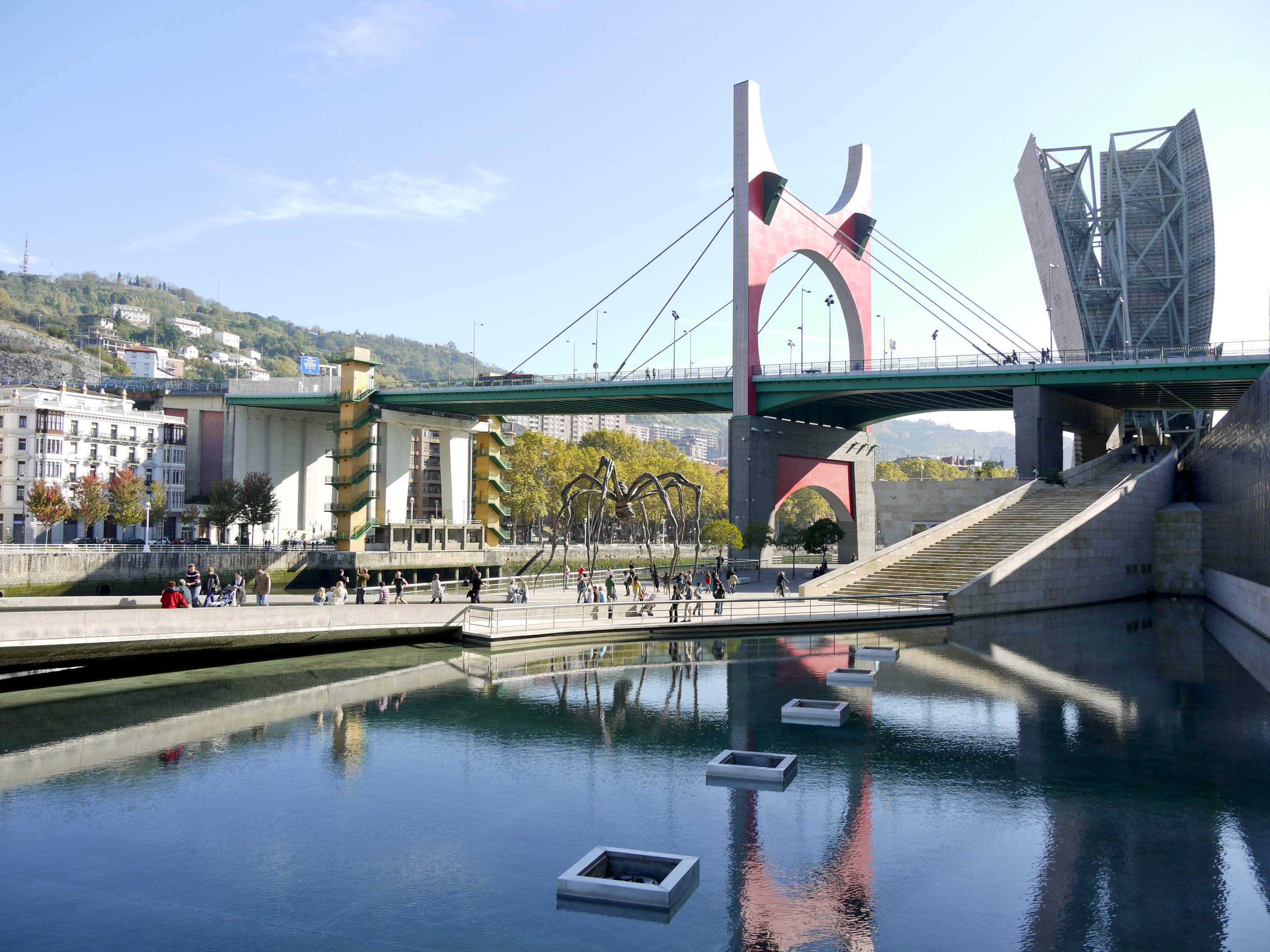 Museo Guggenheim Bilbao, view at river side, Bilbao, Spain